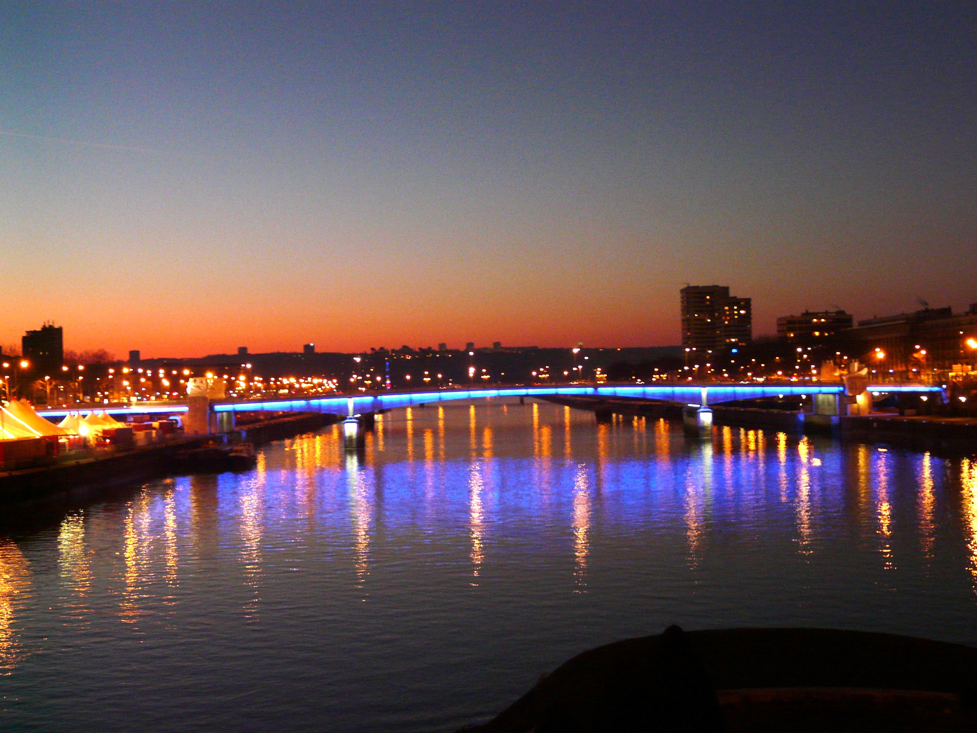 The Boieldieu Bridge across the Seine in Rouen